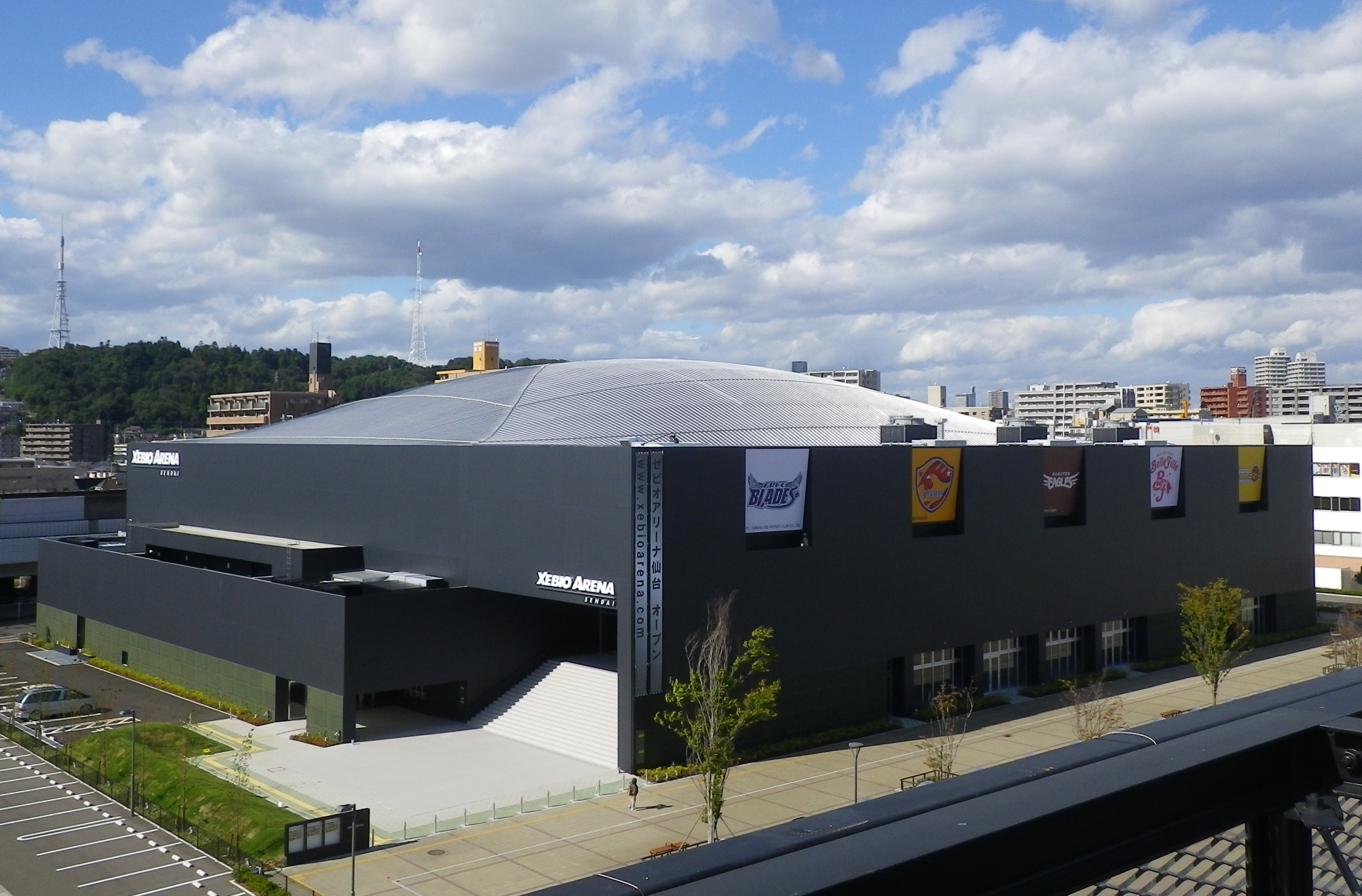 XEBIO ARENA SENDAI in Nagamachi as a subcenter of Sendai